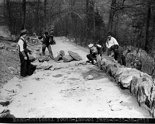 WPA workers, in 1938, constructing a paved pathway in Inwood Hill Park. The recently completed Henry Hudson Bridge is in the background.